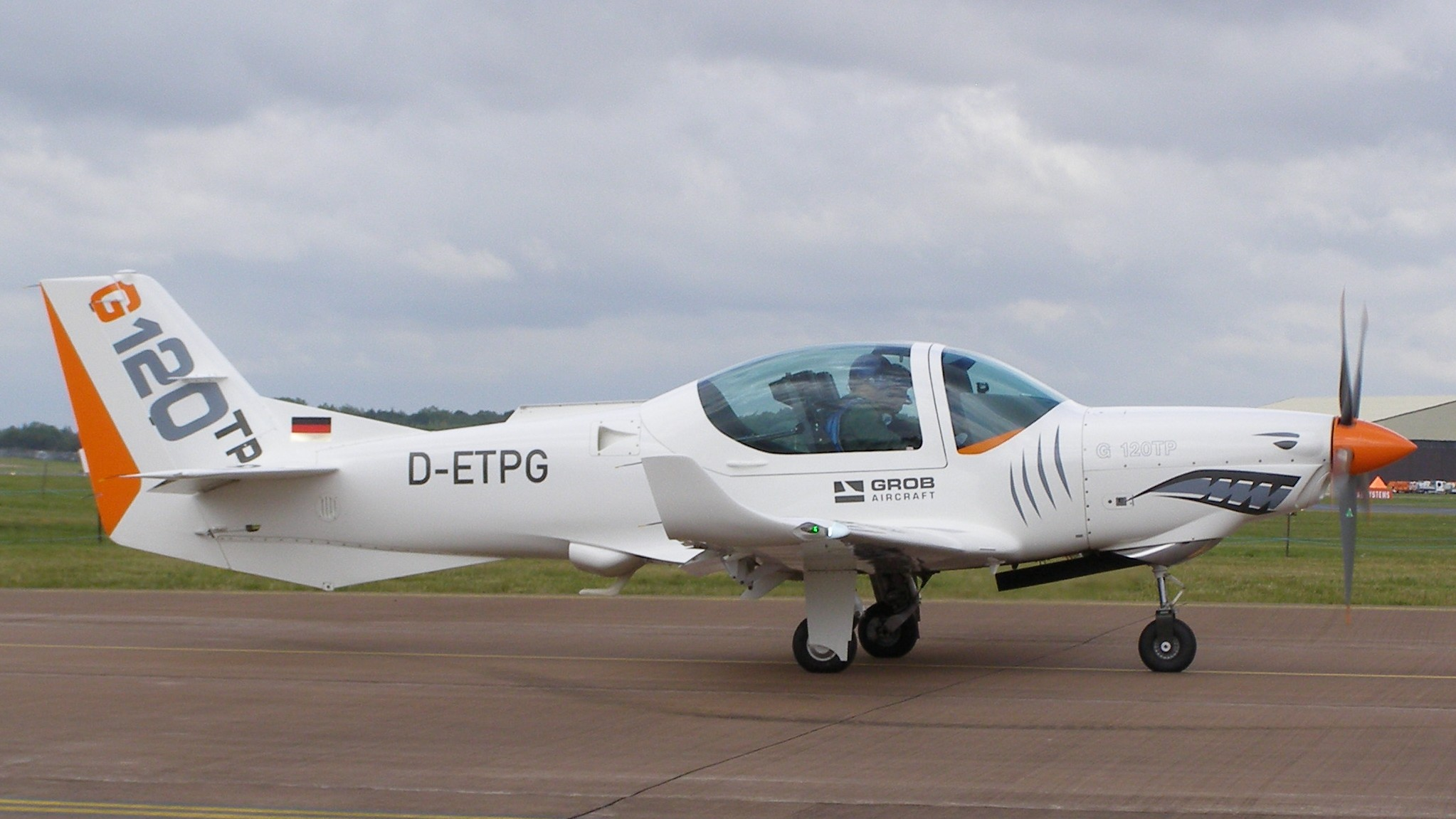 Grob G120TP training aircraft, registered in Germany as D-ETPG, at Royal Air Force Fairford in England during the 2011 Royal International Air Tattoo